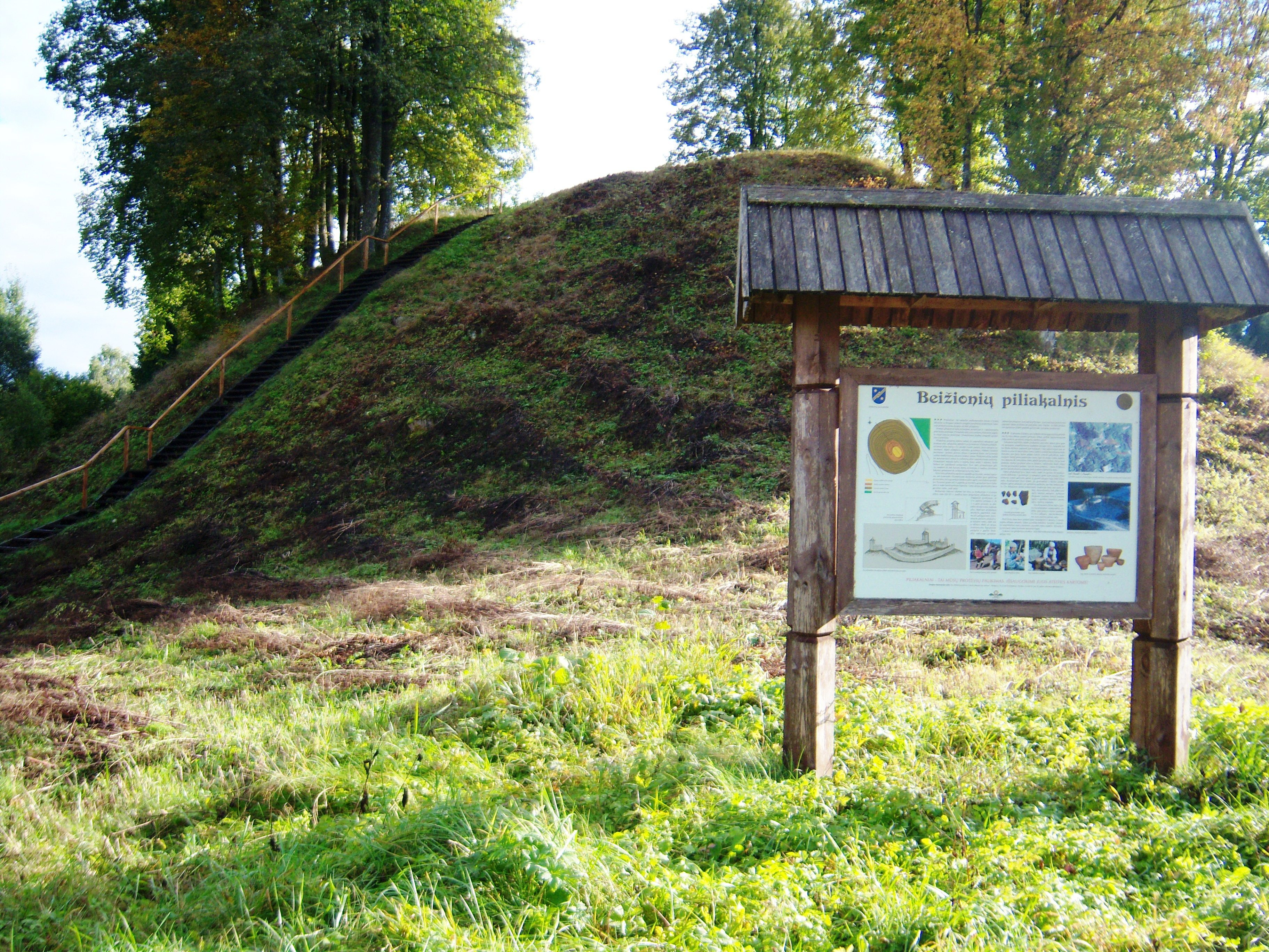 Beižionys Hillfort, Elektrėnai Municipality, Lithuania